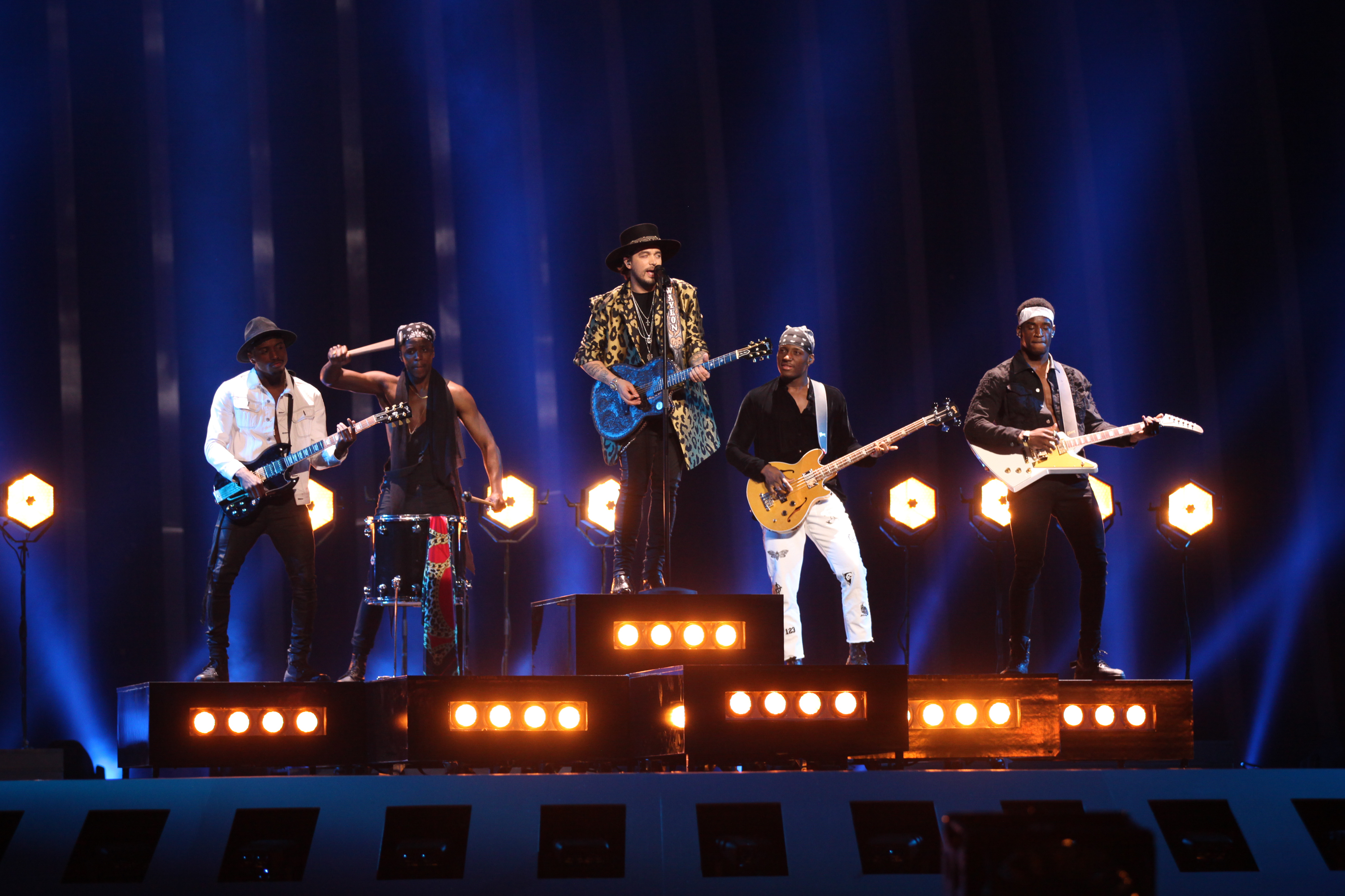 Waylon representing The Netherlands with the song "Outlaw in ’Em" during a rehearsal before the second semi final of the Eurovision Song Contest 2018 in Lisbon.